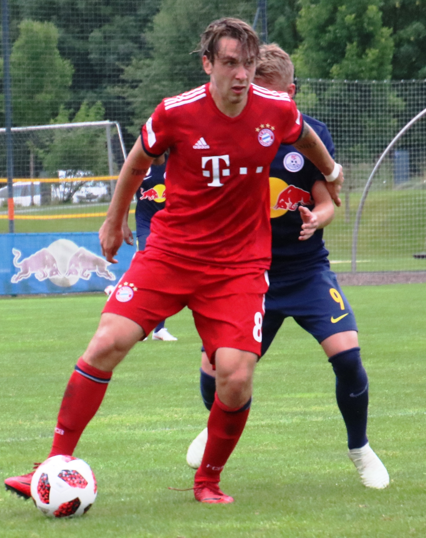 preseasonnmatch 2018/19